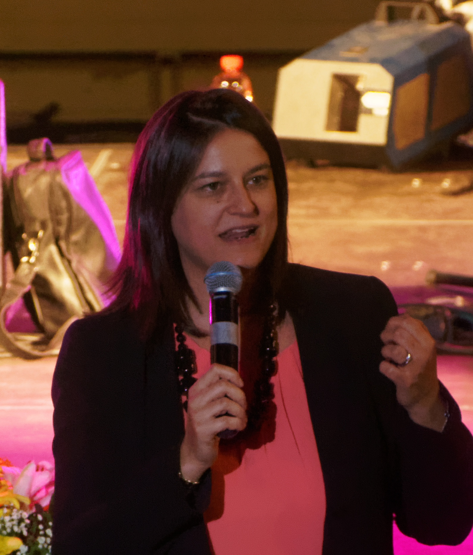 Niki Kerameos at a concert for breast cancer.